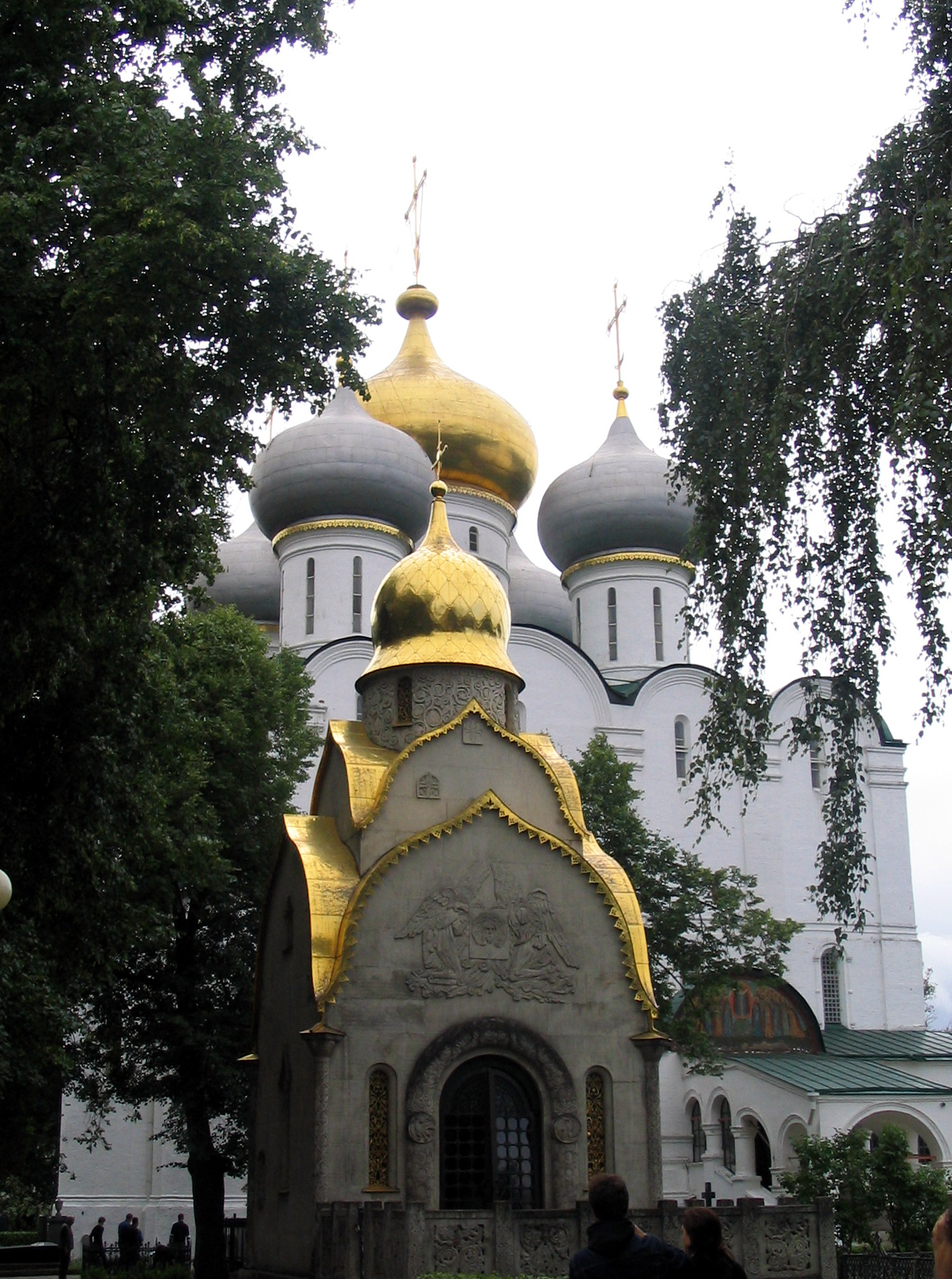 Novodevichy Convent in Moscow